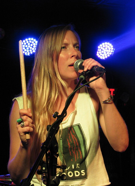 Halli Anderson of River Whyless on stage at The Saint in Asbury Park, NJ on 06192017. Photo by LHCollins.